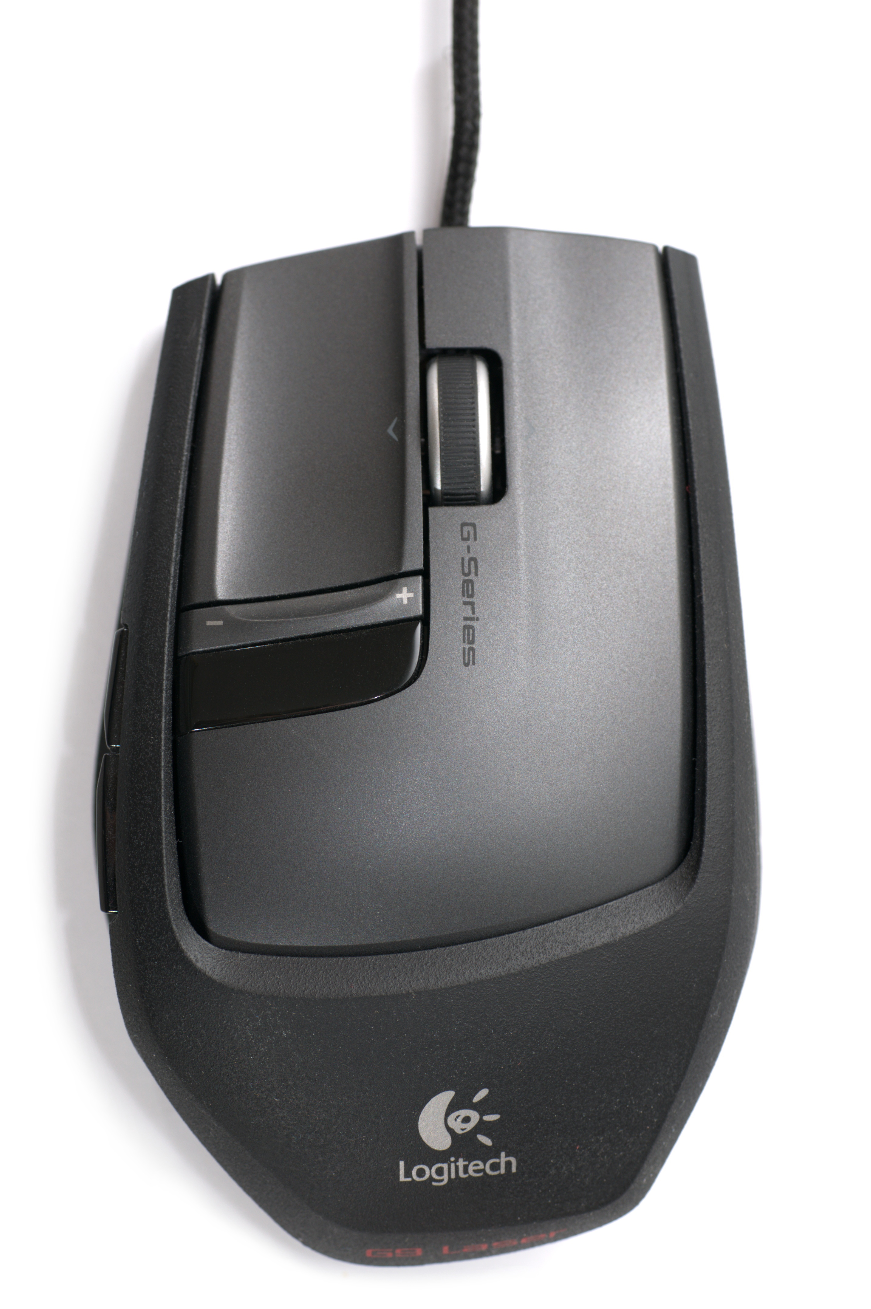 Gooseneck Card Scraper